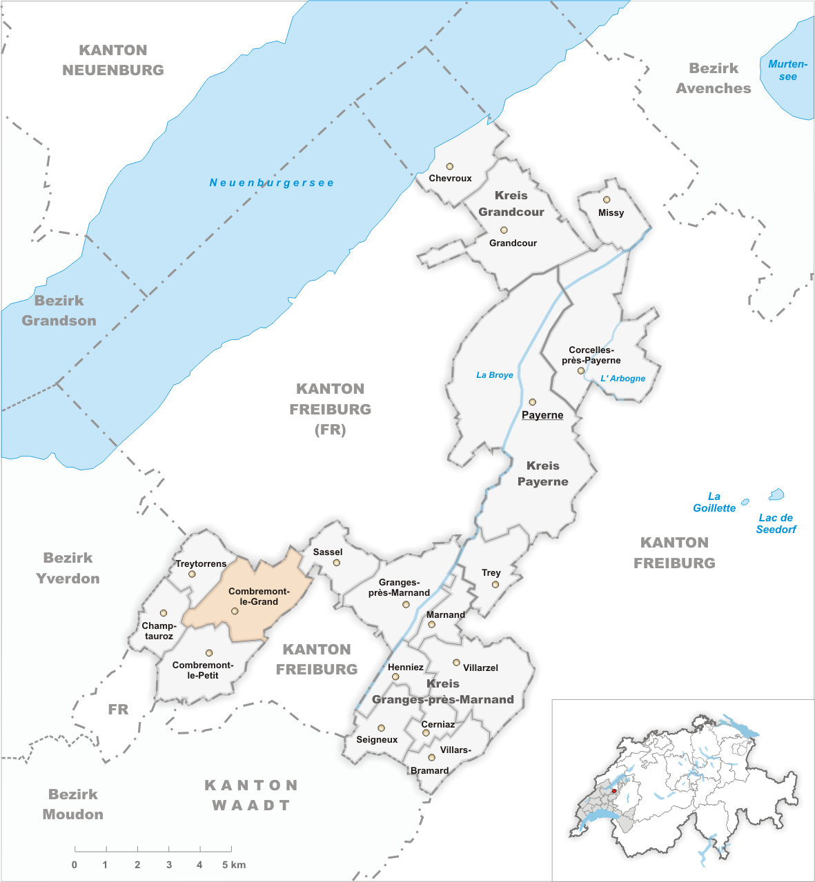 Municipality Combremont-le-Grand